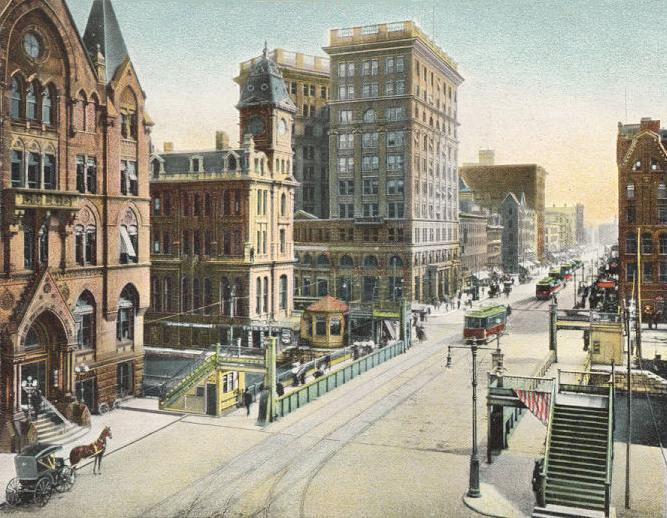 Looking south on Salina Street, Syracuse, New York; from a c. 1905 postcard. At left is the Syracuse Savings Bank (1876), designed by Joseph Lyman Silsbee, and across the Erie Canal is the Onondaga County Savings Bank (1869), designed by Horatio Nelson White. This section of the canal was filled in 1925 and is today Erie Boulevard and Clinton Square.